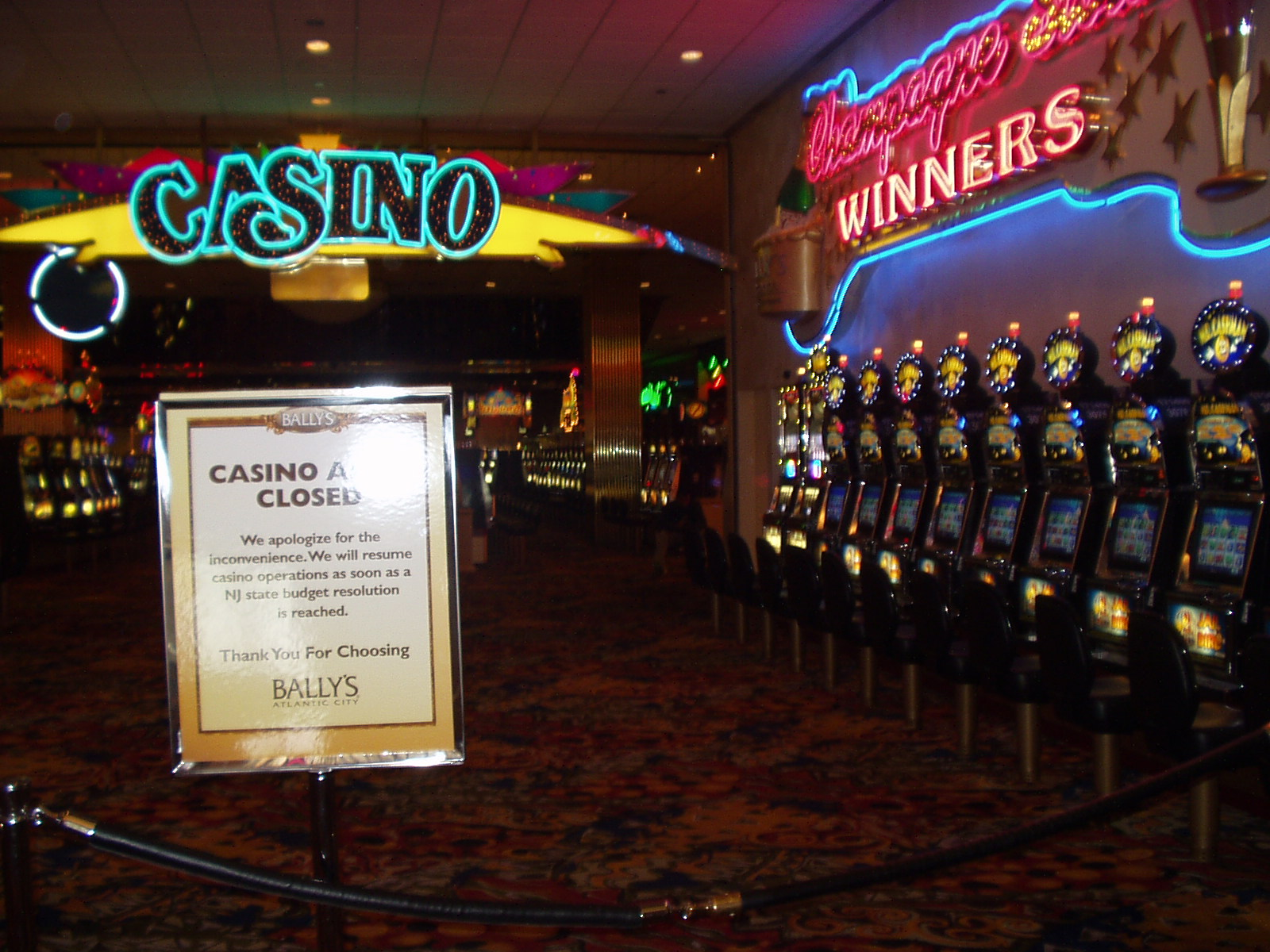 I took this photo of Bally's in Atlantic City during the en:2006 New Jersey State Government Shutdown showing the notice sign and empty casino. --Phantom784 02:02, 10 July 2006 (UTC)